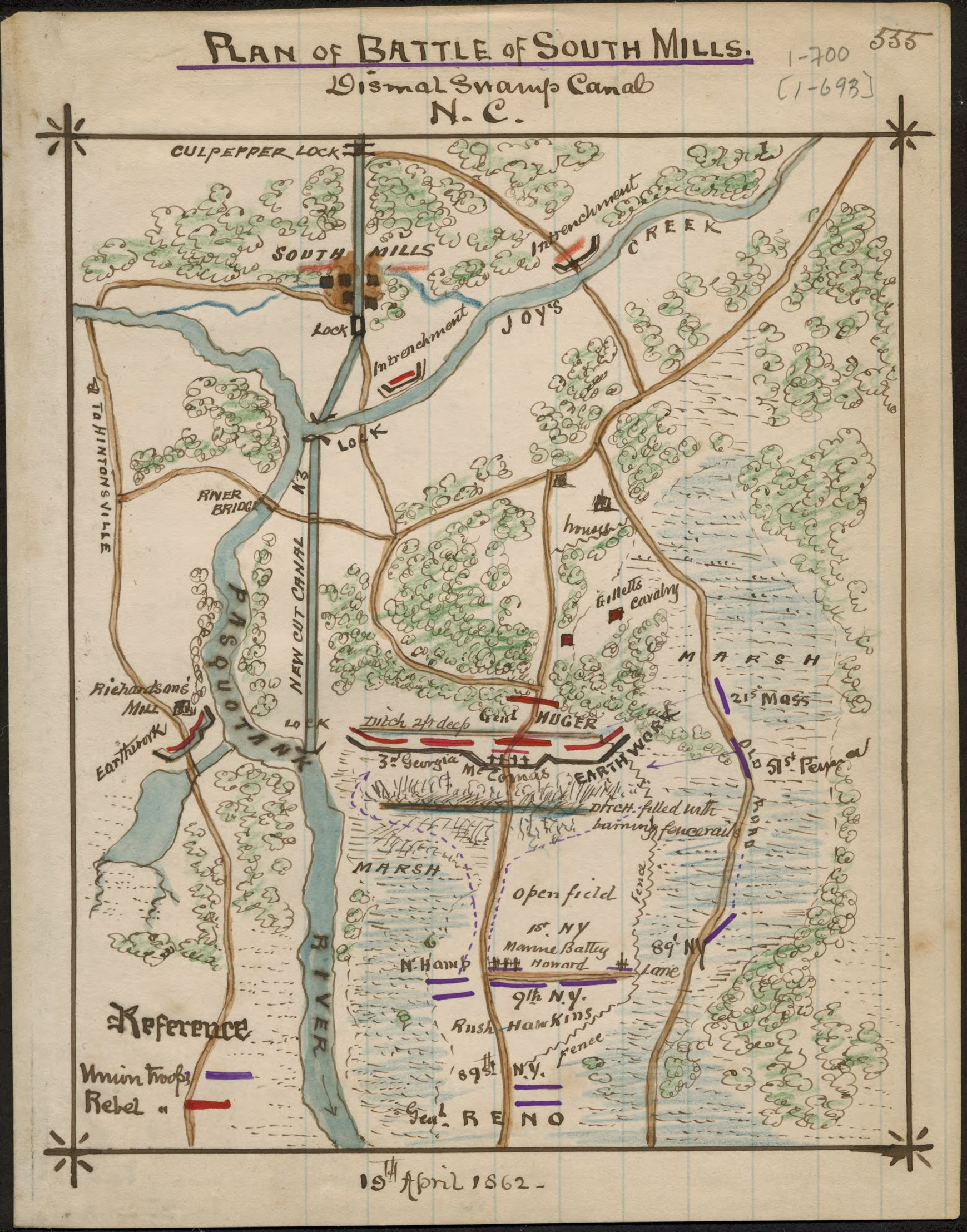 Shows the area between South Mills, Camden County, N.C., and Joy's Creek to the north and the Pasquotank River to the south where a minor shirmish took place on April 19, 1862.